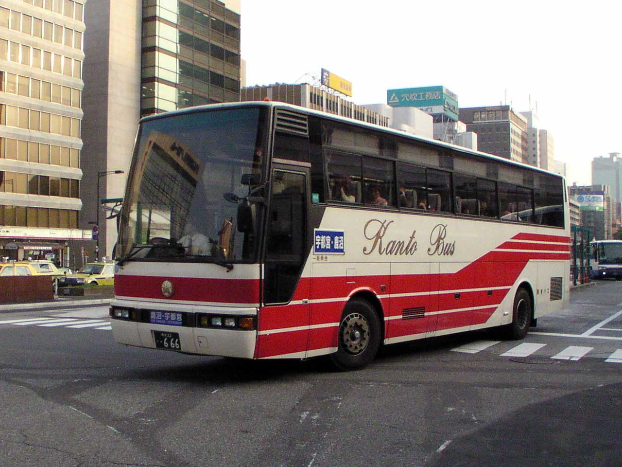 Fleet of Kanto Jidosha, charterd bus operated at "Marronnier Shinjuku". Model: Isuzu Super Cruiser U-LV771R License plate: TGT22 U-666 Place: Tokyo Station, Yaesu, Chuo Ward, Tokyo Japan